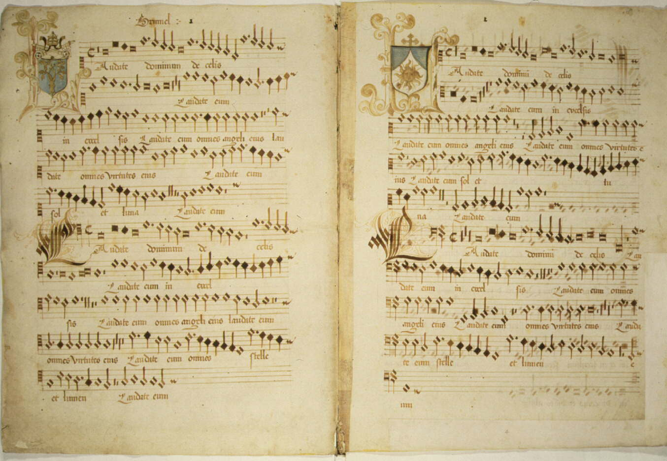 Antoine Brumel's motet "Laudate Dominum" score.